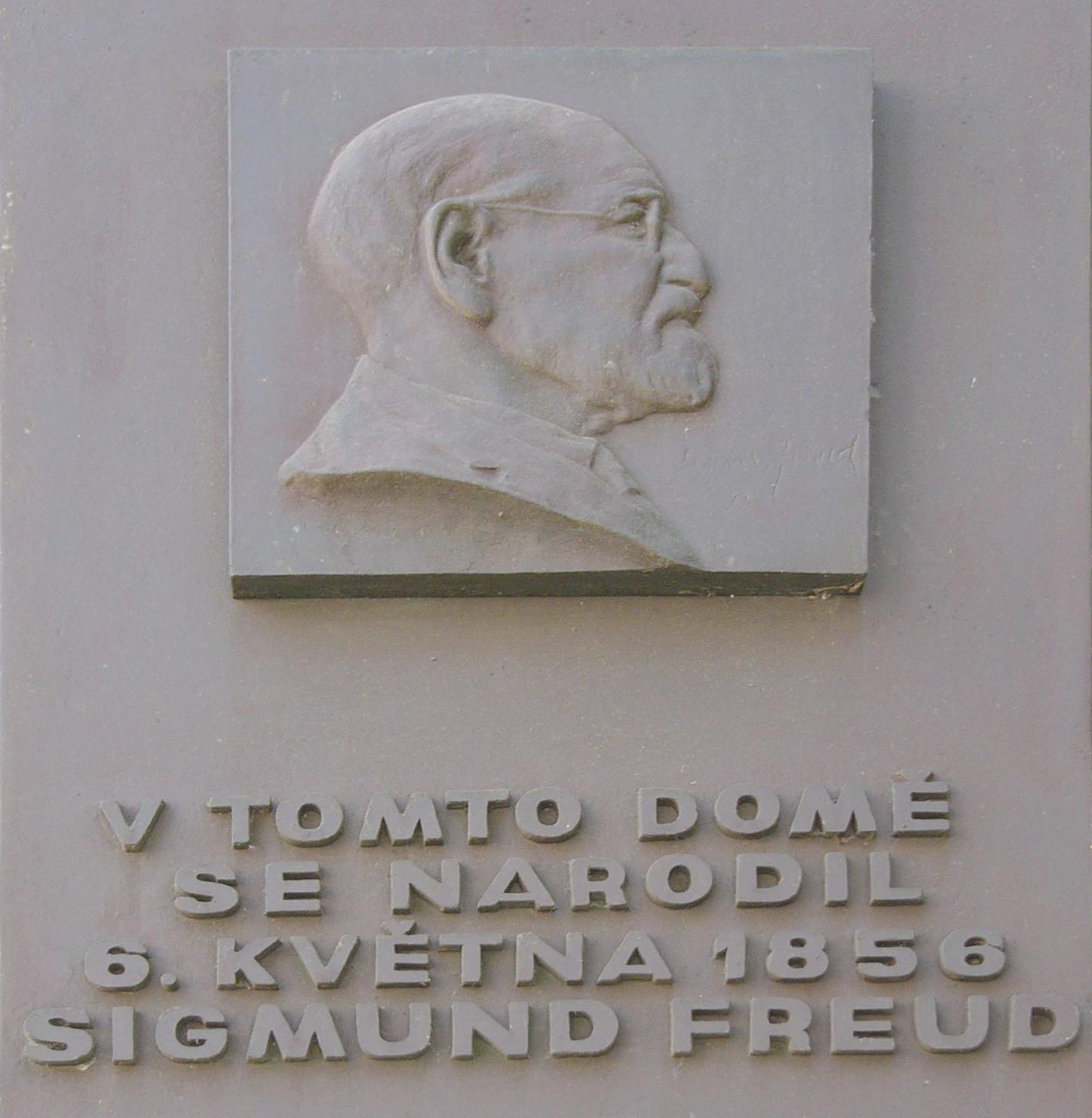 Memorial dedicated to Freud